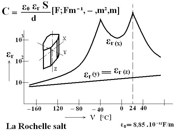 Rochelle salt diagram.